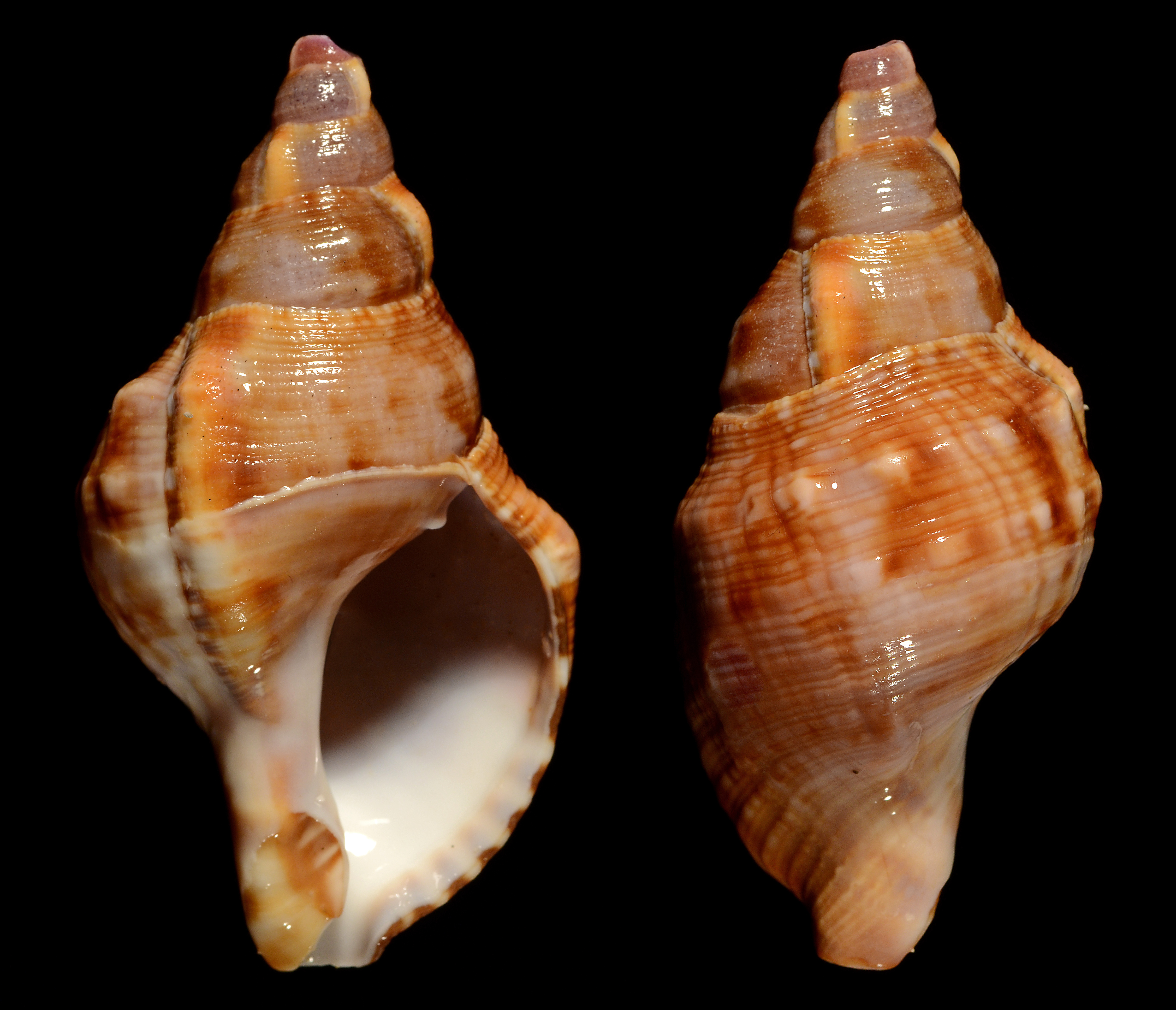 unidentified sea shell from the Wildcoast, South Africa. Aprox size will be updated soon.